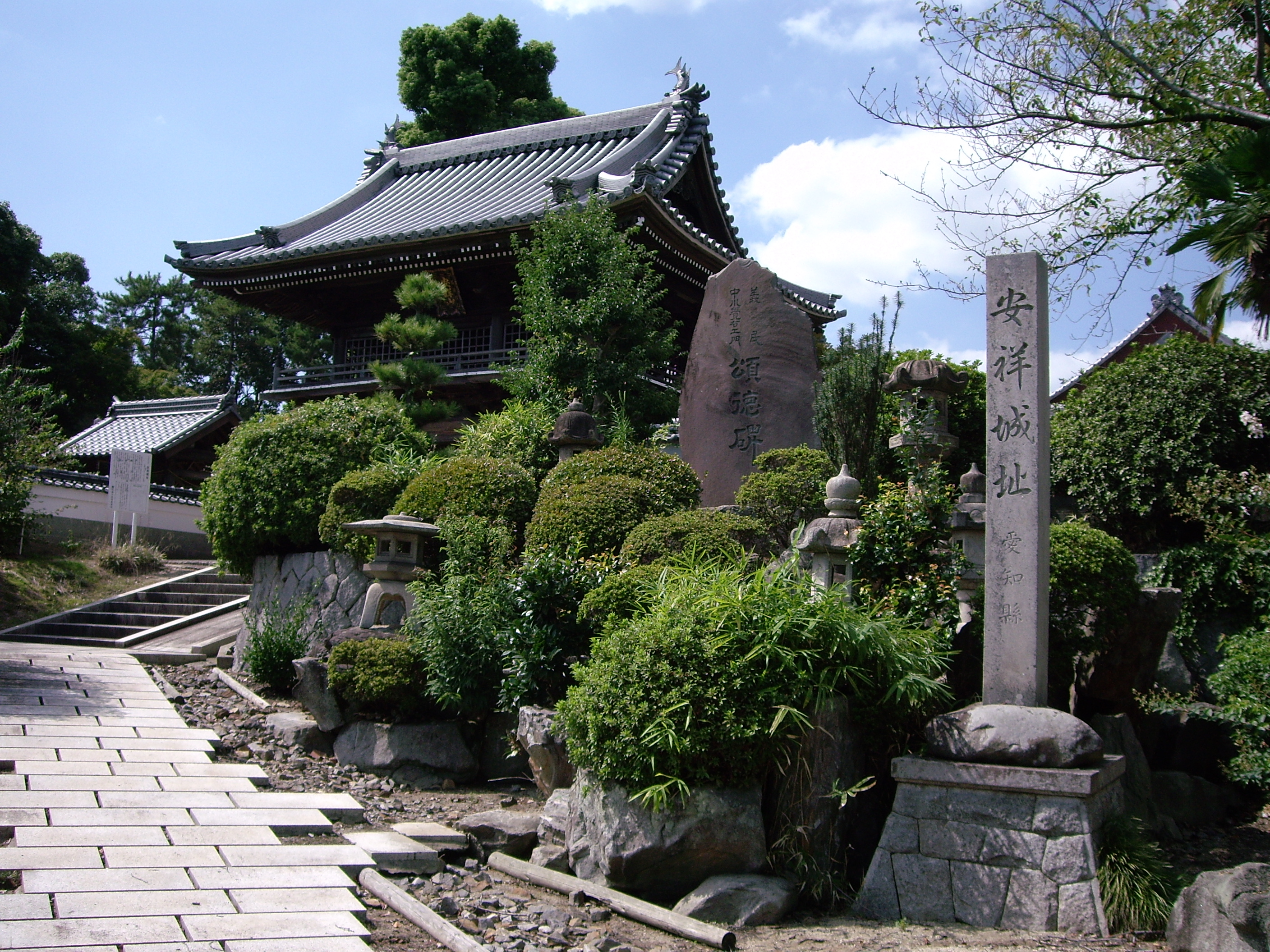 Old Ansho Castle, Anjo city.